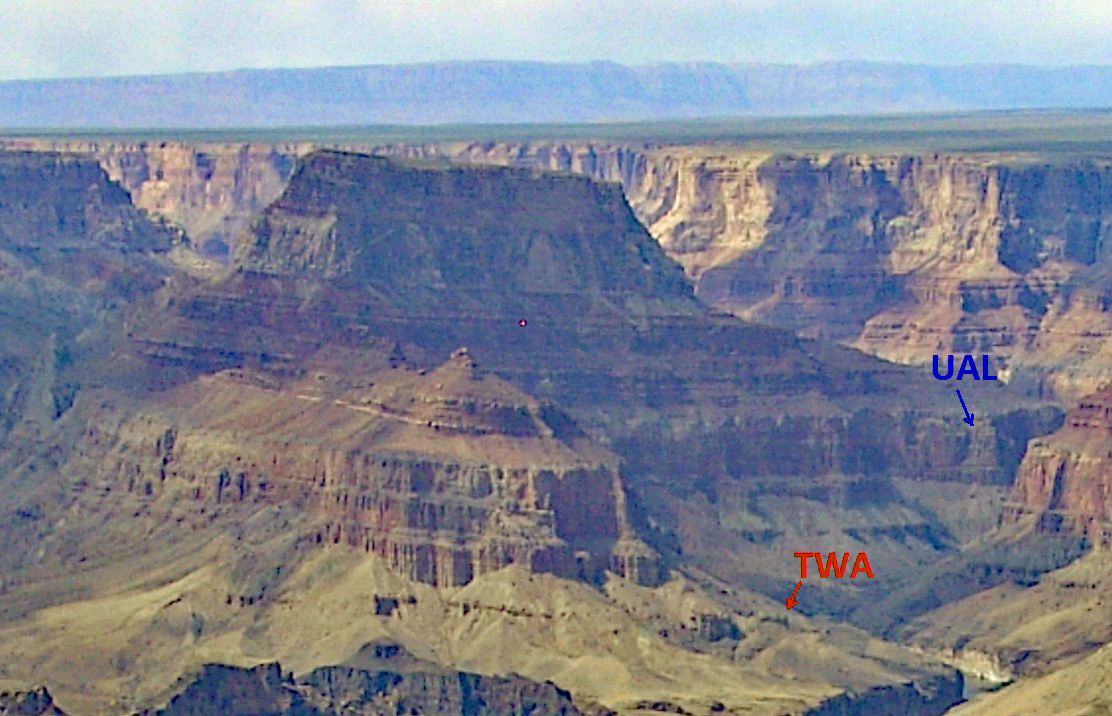 Grand Canyon landscape